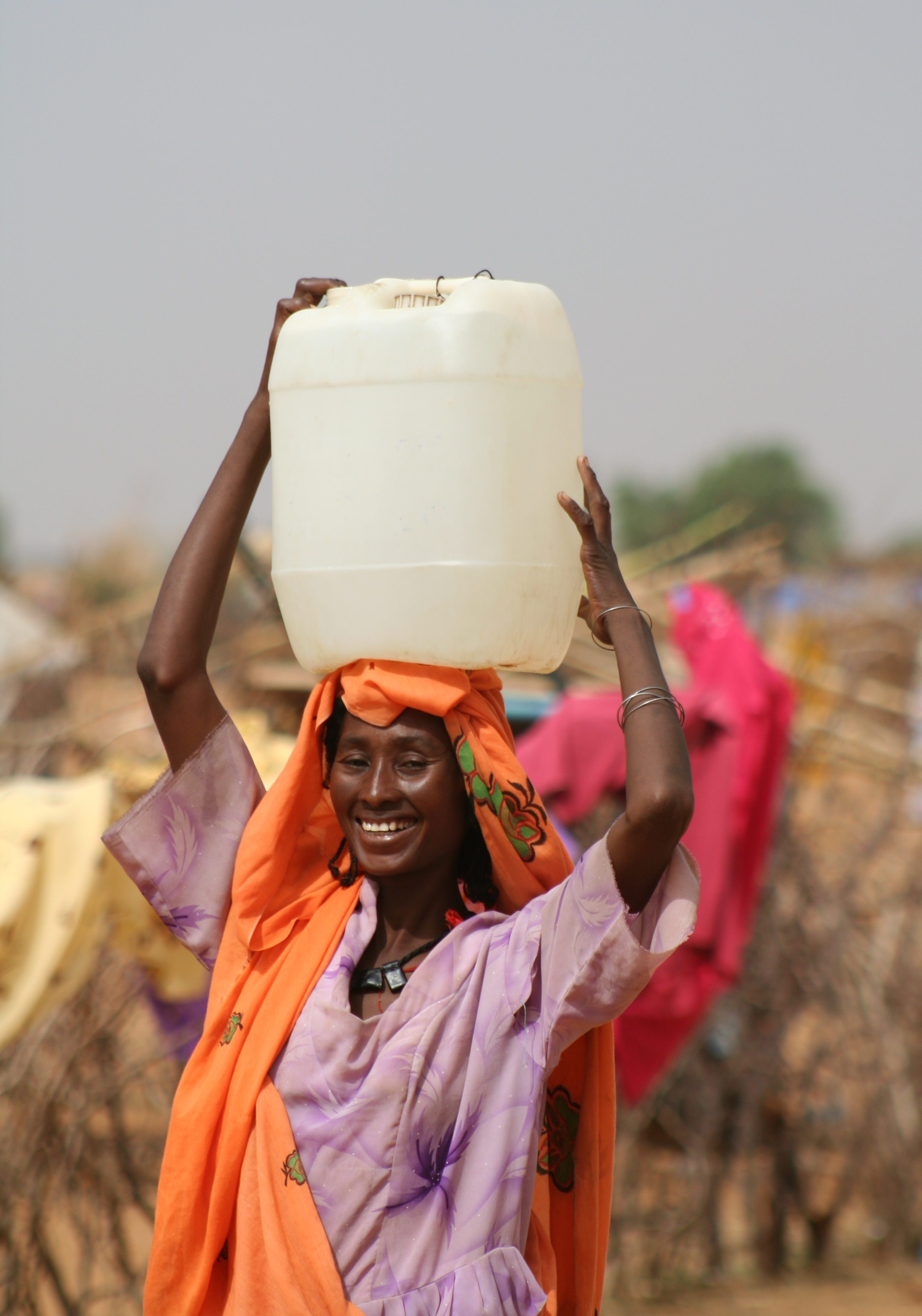 Globally two thirds of the burden of carrying water is borne by women. In the absence of water being accessible to households girls and women are often forced to carry water for long distances. Loads of 20 kilograms, as shown in this image, are common. Photo: Leonard Tedd/DFID